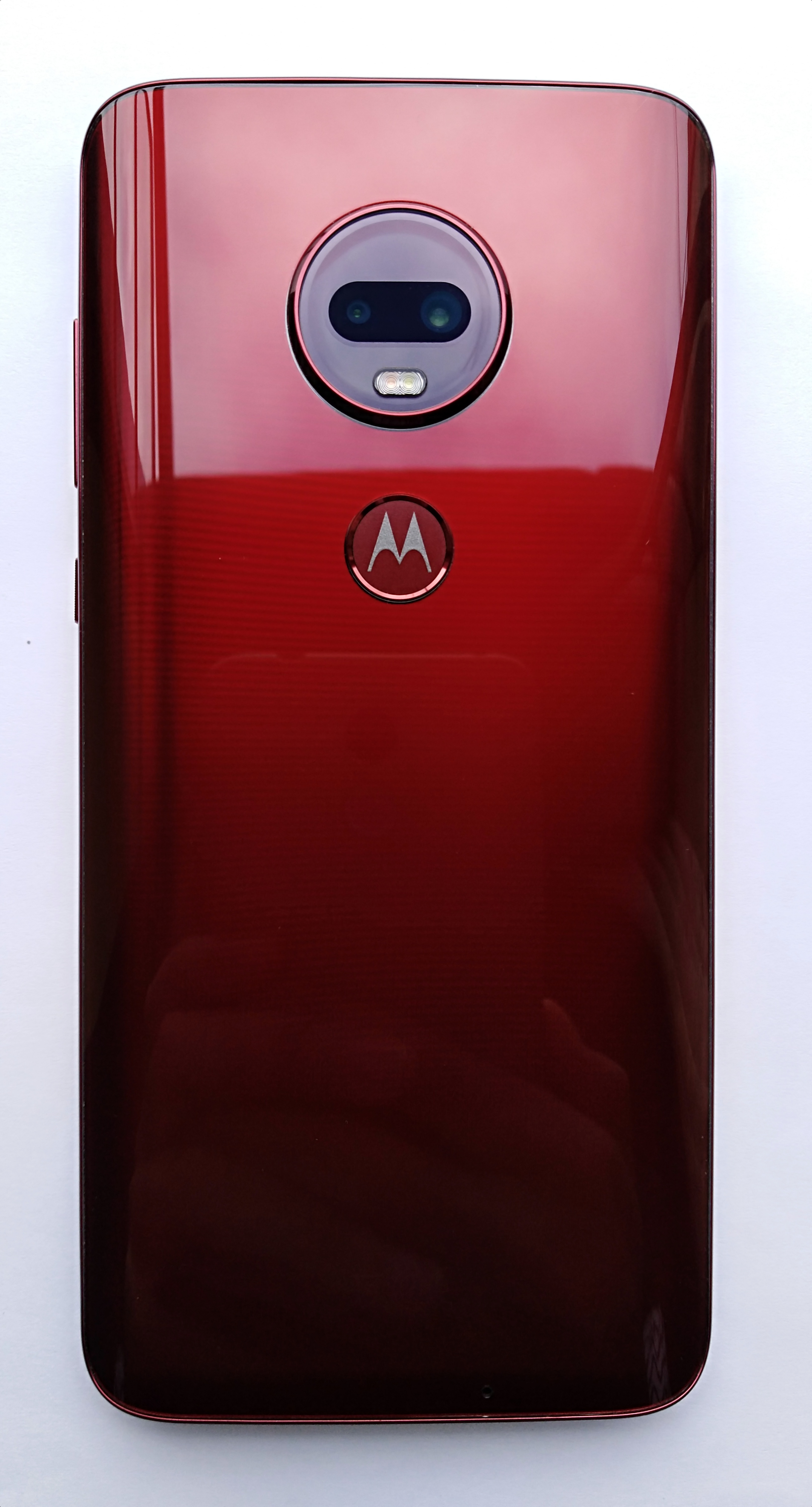 Motorola Moto G7 Plus model XT1965-2 LATAM model, colour Viva Red, with dual camera and fingerprint reader